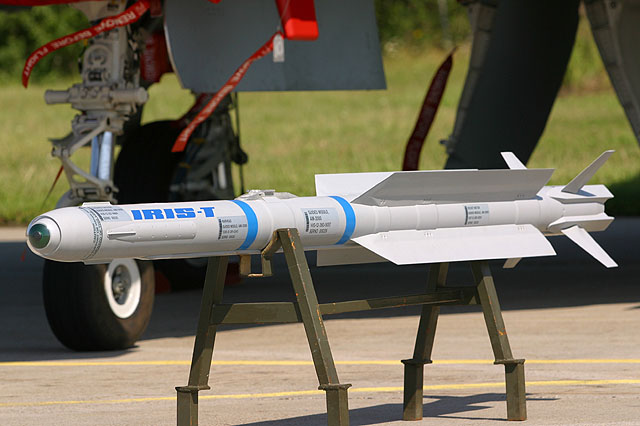 IRIS-T found at the ILA expo in Berlin in 2006 in front of a Eurofighter